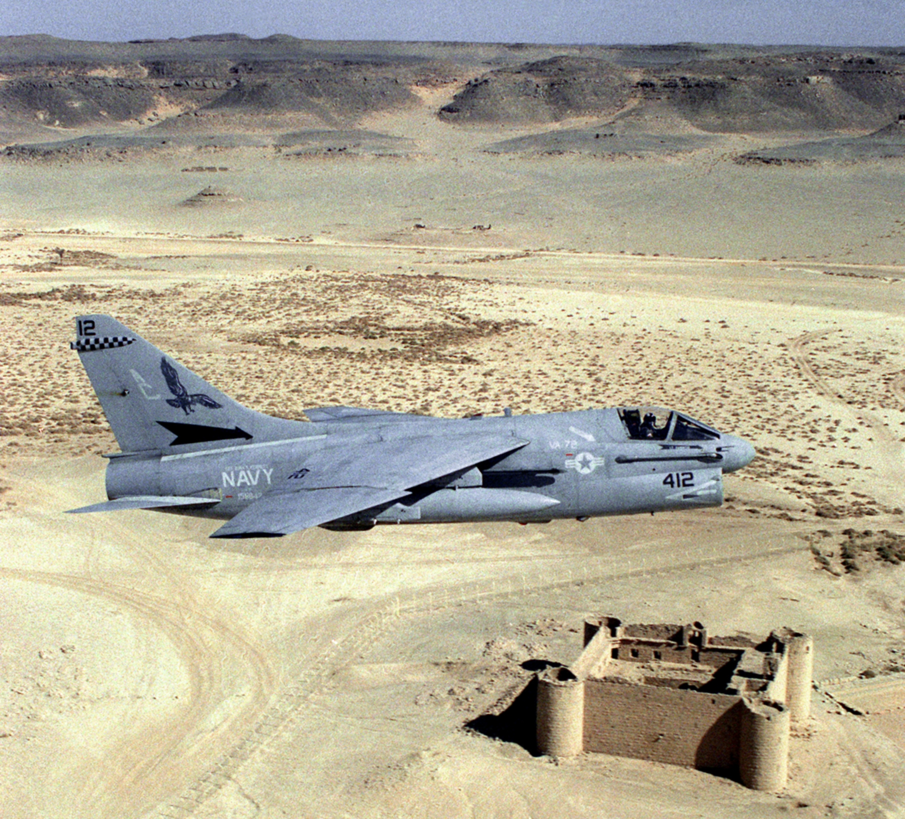 A U.S. Navy LTV A-7E Corsair II aircraft of attack squadron VA-72 Blue Hawks, assigned to Carrier Air Wing Three (CVW-3) aboard the aircraft carrier USS John F. Kennedy (CV-67), passes over a ruined fort in the Saudi desert during low-level training.